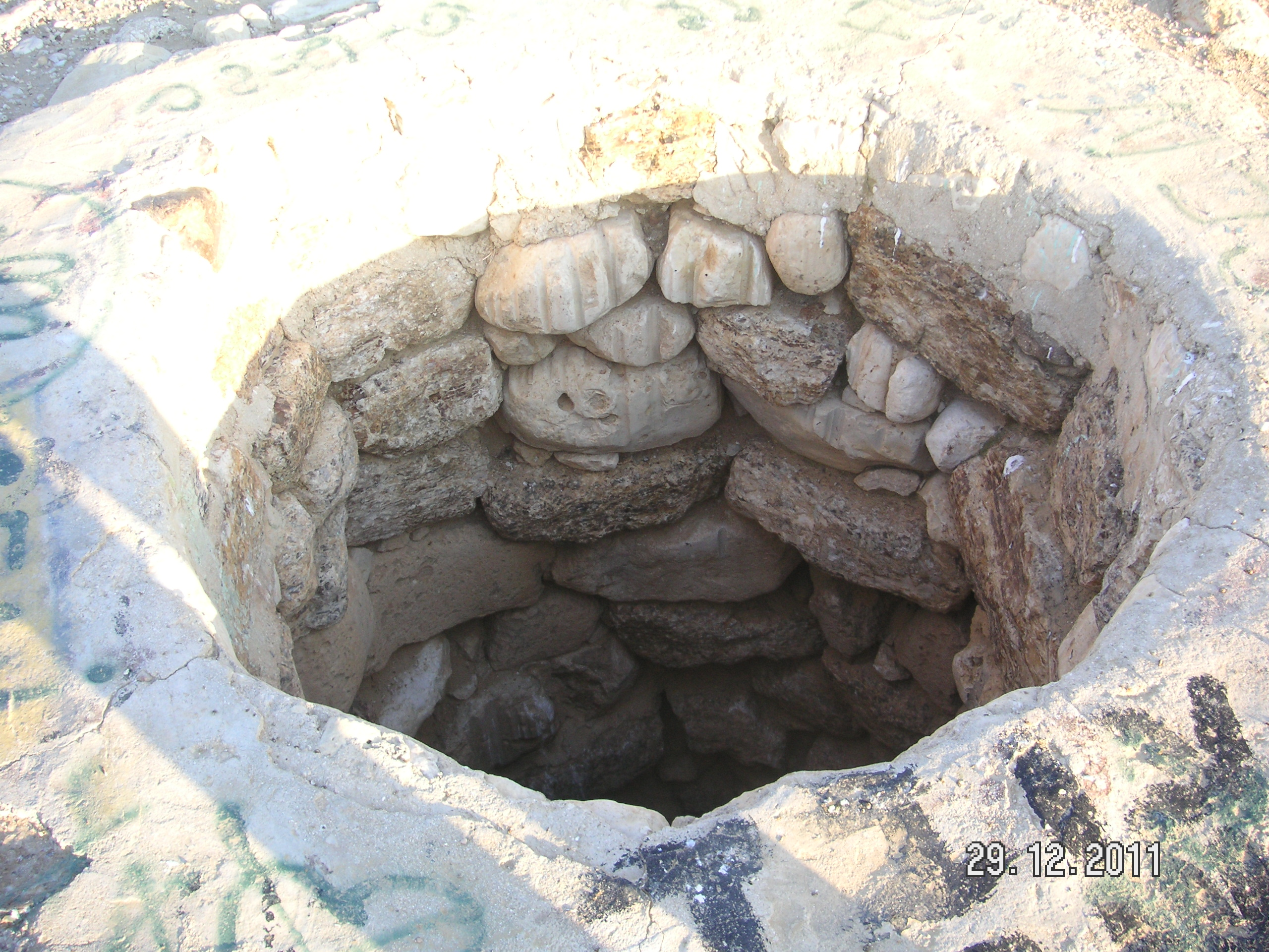 Water Well